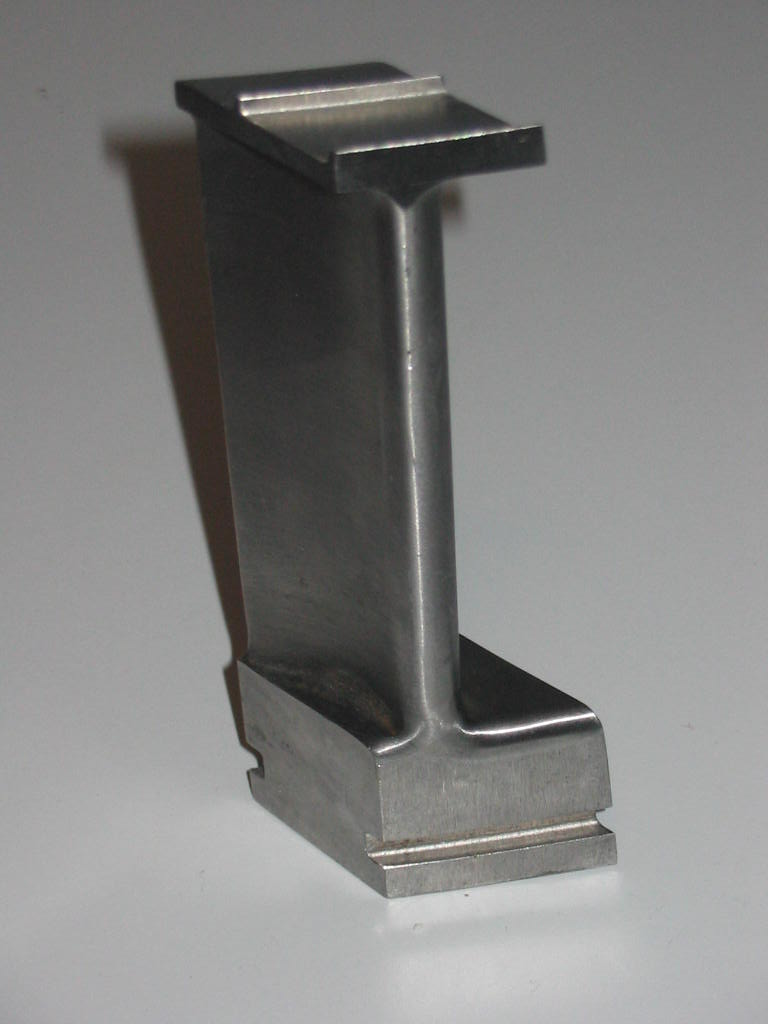 Blade of a steam turbine (made by ABB)